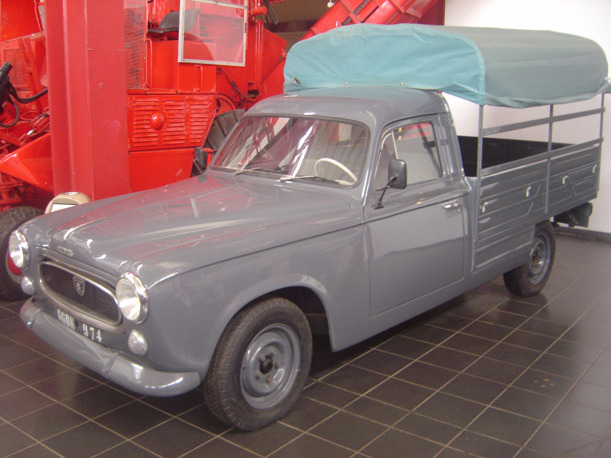 Photograph taken at the Muséum agricole et industriel Stella Matutina on Réunion.